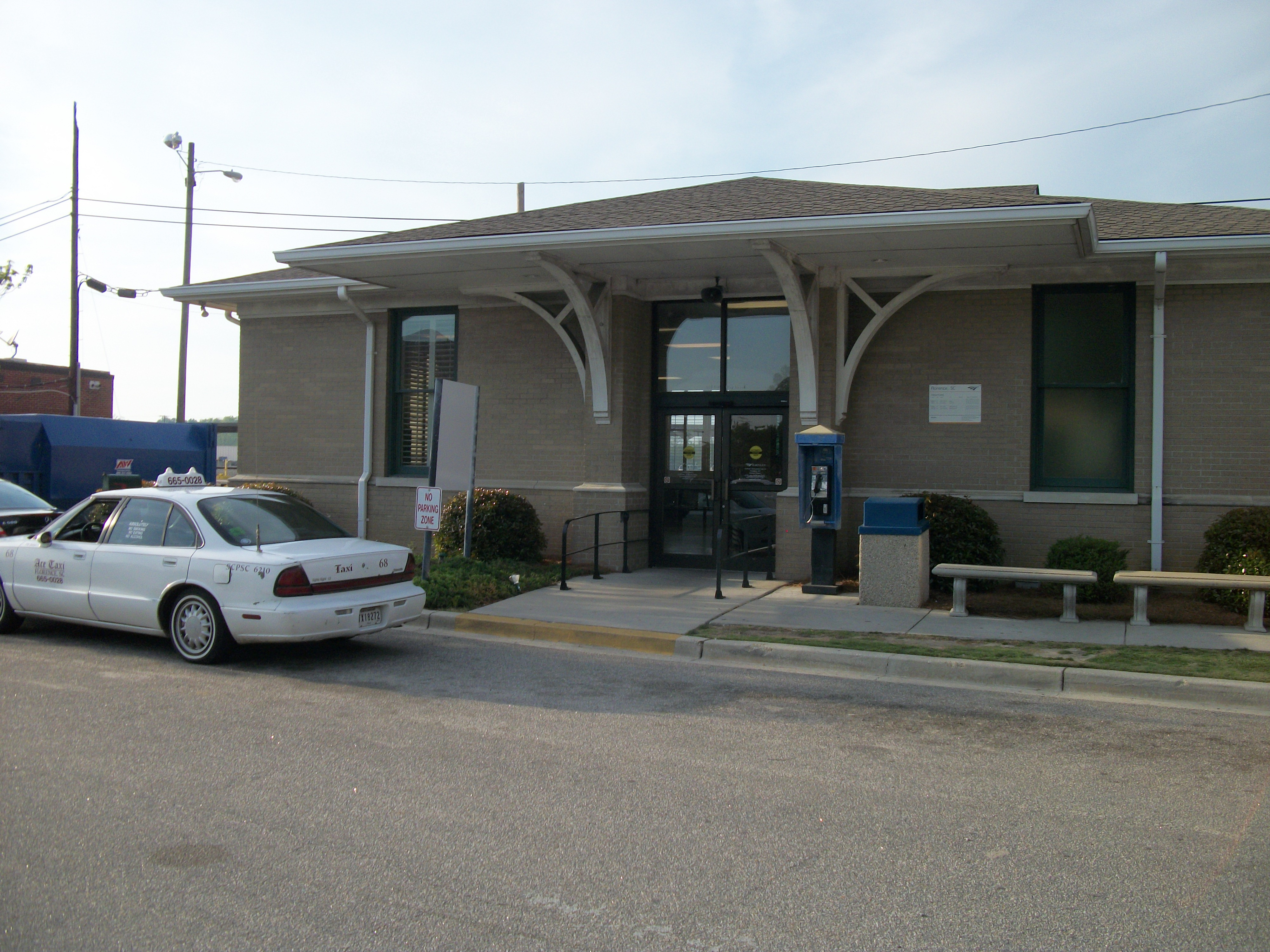 Florence (Amtrak station) as seen from the parking lot of the McLeod Regional Medical Center in Florence, South Carolina. More images to come, including that of the old station house which is now a facility for the aforementioned medical center.